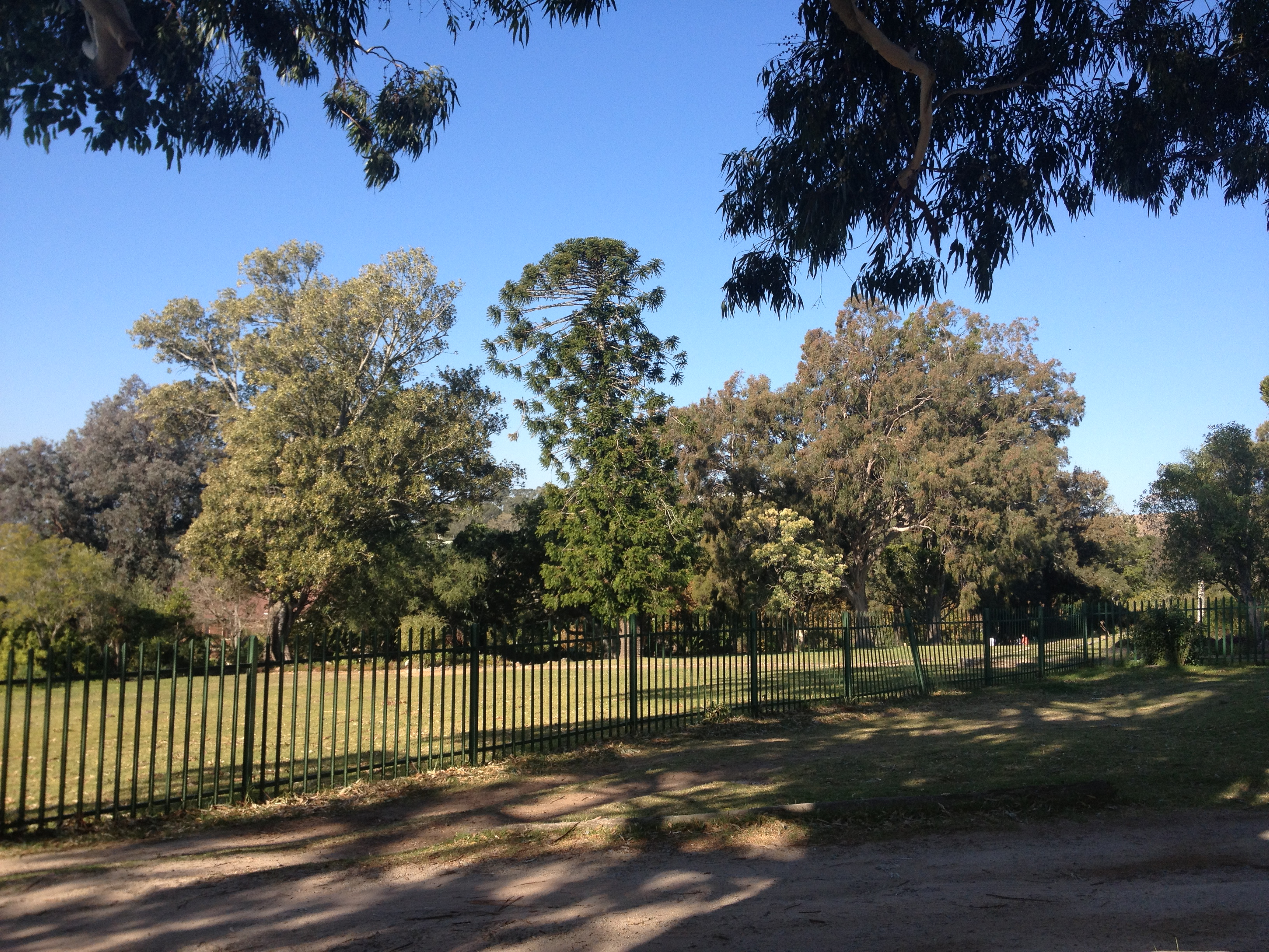 This media shows a South African Protected Site with SAHRA file reference 9/2/003/0004.